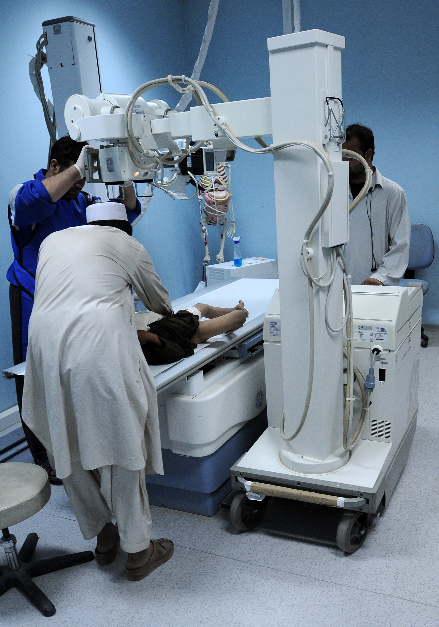 A young boy recived medical care at Paktiya Regional Medical Hospital after being injured in an attack on Forward Operating Base Thunder one of three bases insurgents attacked in eastern Afghanistan. One Afghan security contractor and five insurgents lost their lives and when a squad-sized element of insurgents attacked three bases near Gardez, Paktya province, Sept. 24. At least two others were injured. The attack began when insurgents opened fire on the Forward Operating Base Goode (Gardez) entry control point with AK-47 rifles at 12:02 p.m. One insurgent was killed and a truck belonging to a respected village elder was hit by a rocket-propelled grenade and set aflame in this initial attack. (U.S. Army SSG Troy P. Johnson 304th PAD)